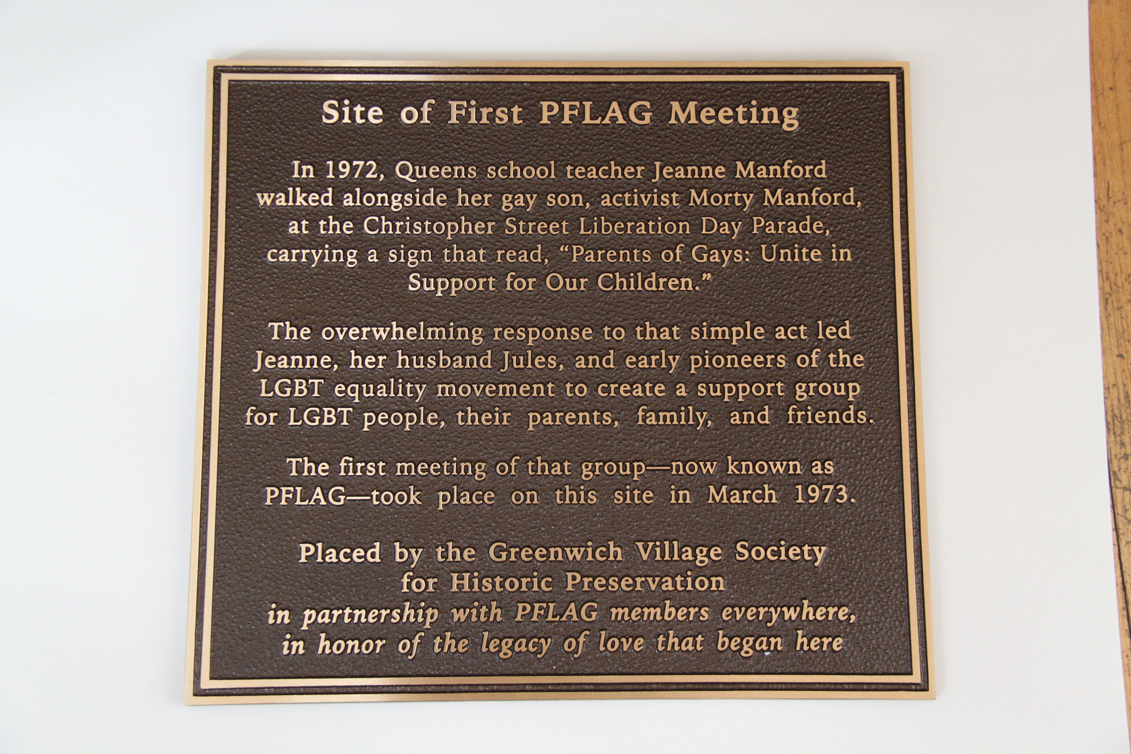 The plaque unveiled by Greenwich Village Society for Historic Preservation on June 23, 2013 at Church of the Village at 201 West Thirteenth Street